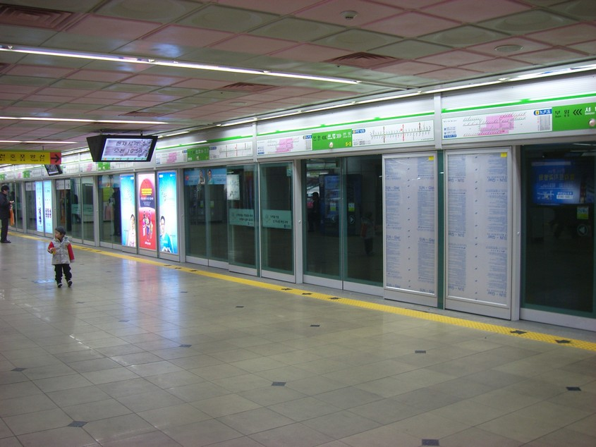 Seomyeon Station